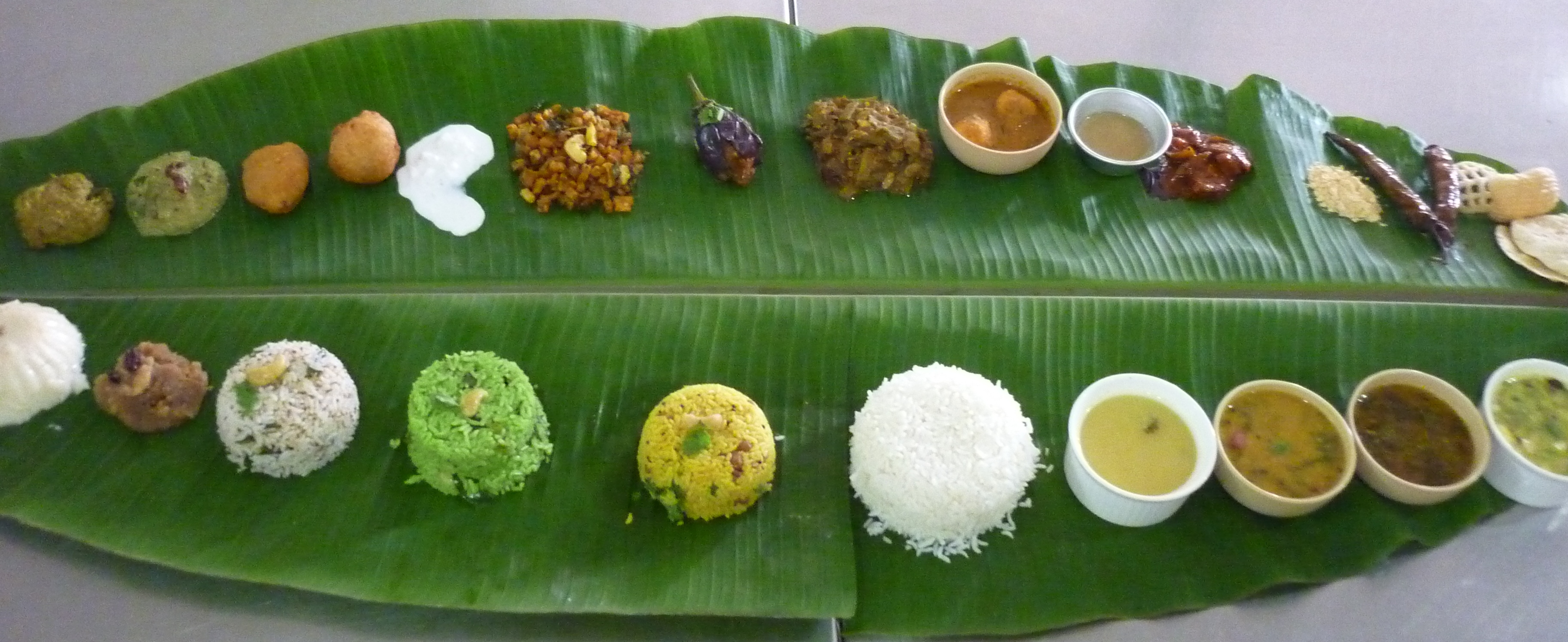 A spread of Andhra Vegetarian delicacies on a single banana leaf for SANKRANTHI festival